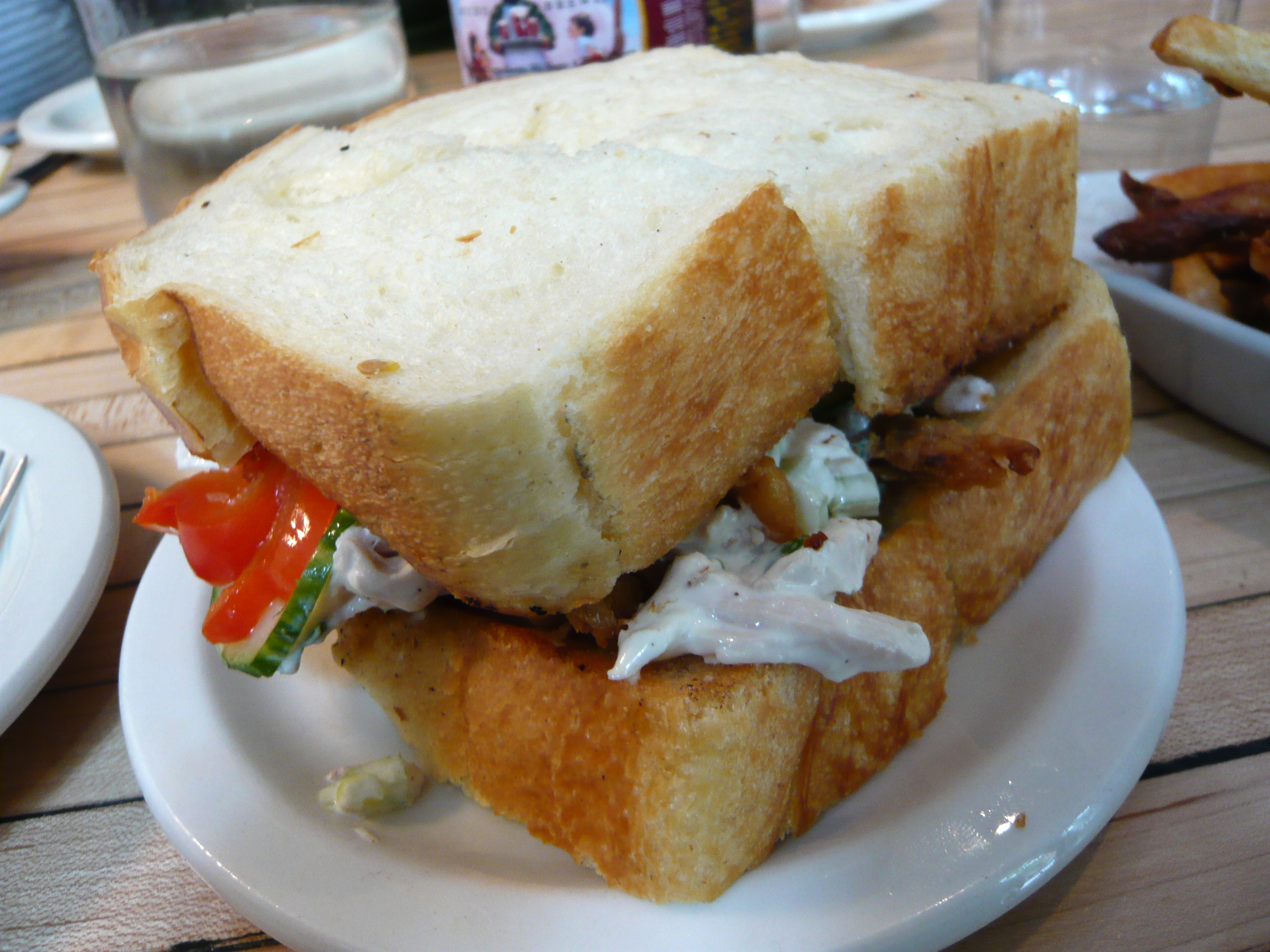 Chicken salad sandwich with gribenes and pickles. A chicken salad is any salad that comprises chicken as a main ingredient. Other common ingredients include mayonnaise, hard-boiled egg, celery, pepper, peas and a variety of mustards. Gribenes or grieven (Yiddish: גריבענעס, [ˈɡrɪbənəs], "scraps") are crisp chicken or goose skin cracklings with fried onions, a kosher food somewhat similar to pork rinds. Gribenes are a byproduct of schmaltz preparation.